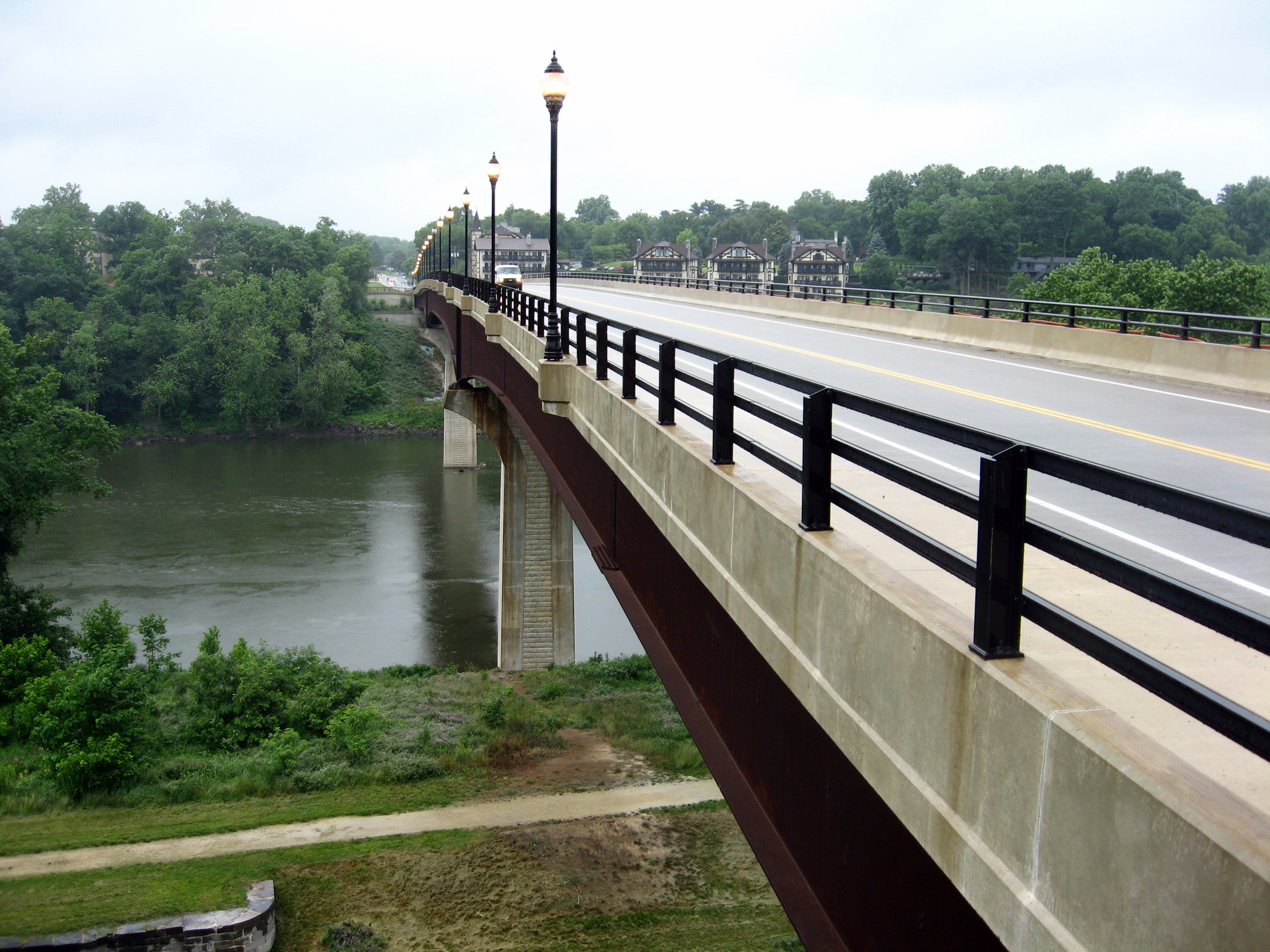 James Rumsey Bridge over the Potomac River in Shepherdstown (West Virginia) and Maryland.